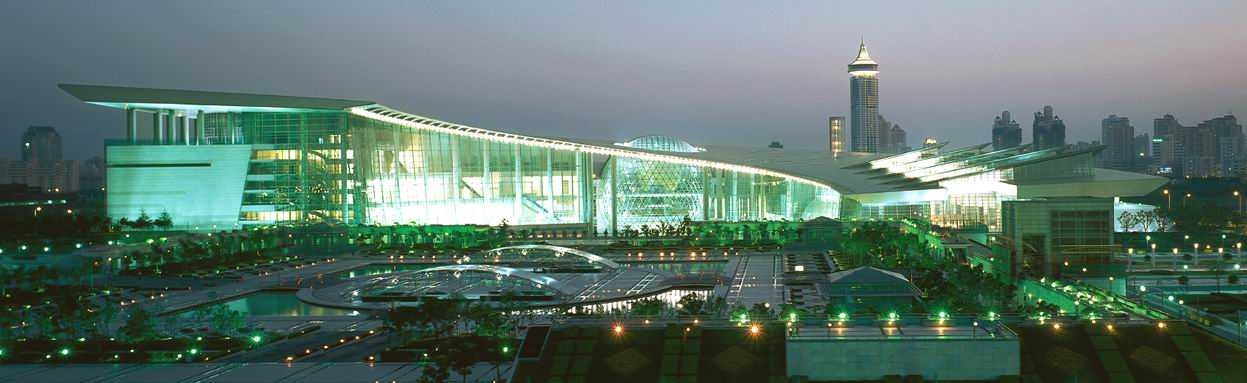 Shanghai Science and Technology Museum.